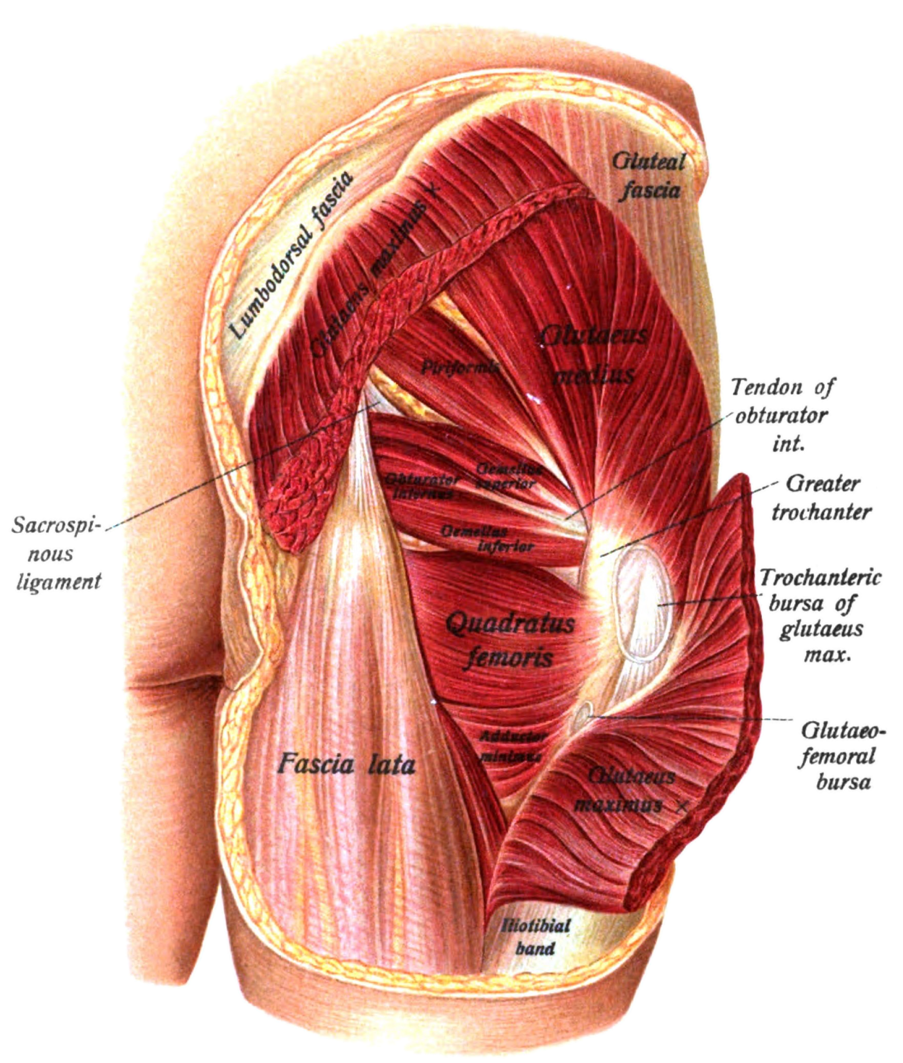 An anatomical illustration from the 1909 edition of Sobotta's Atlas and Text-book of Human Anatomy with English terminology.